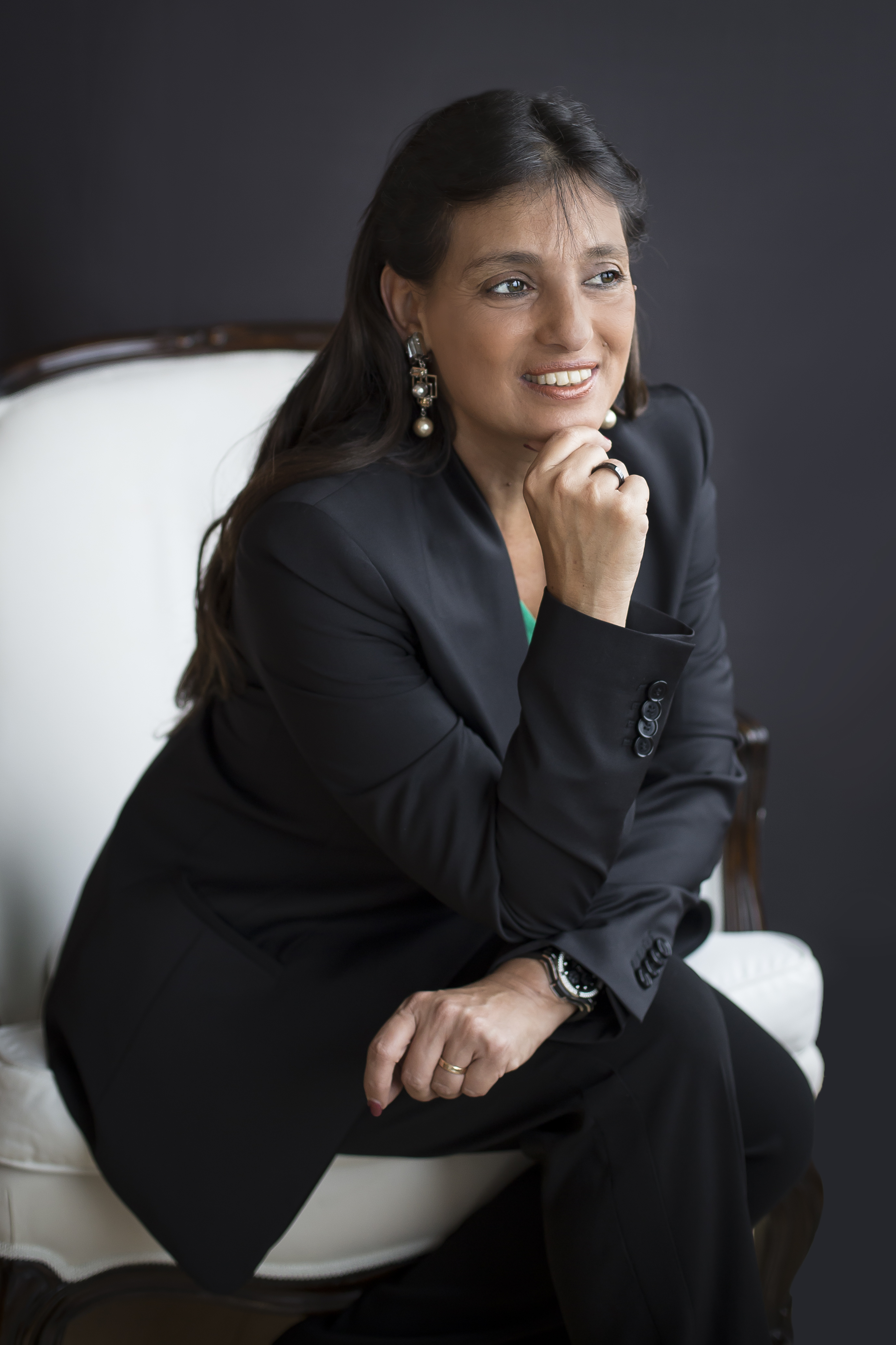 Viviana Zocco is an argentine businesswoman. She is founder and CEO of TKM, a leading Spanish entertainment platform and Grupo VI-DA. She is also founder and CEO of a Spanish eBook ecosystem. Zocco is considered one of the most successful women entrepreneurs in Latin America.